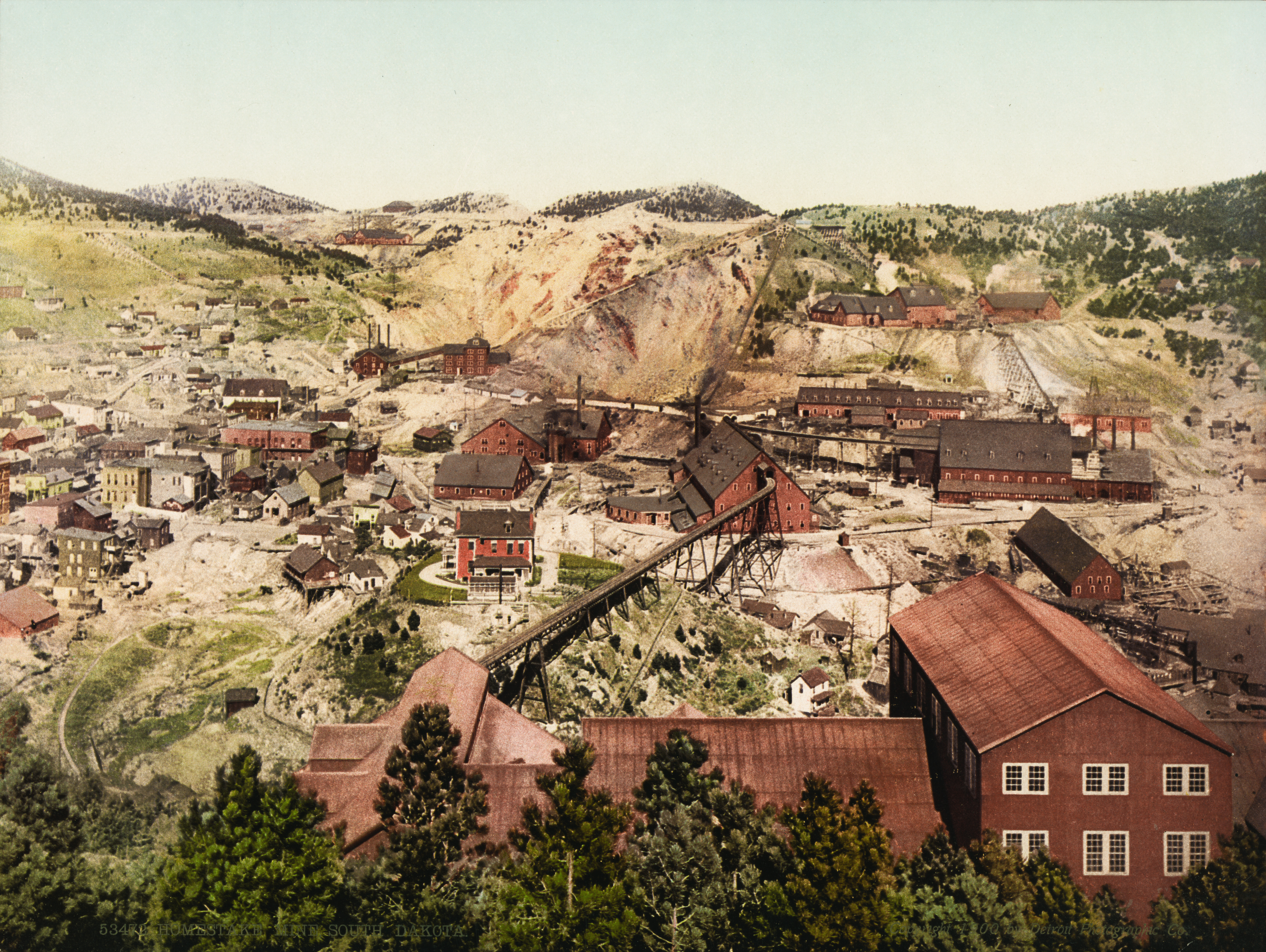 The Homestake Mine, a deep underground gold mine located near Lead, South Dakota.